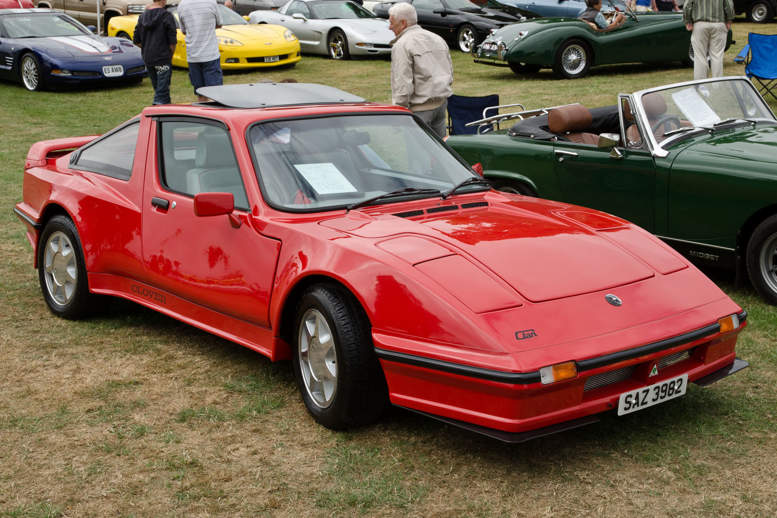 Bodelwyddan Classic Car Show 21/07/2013